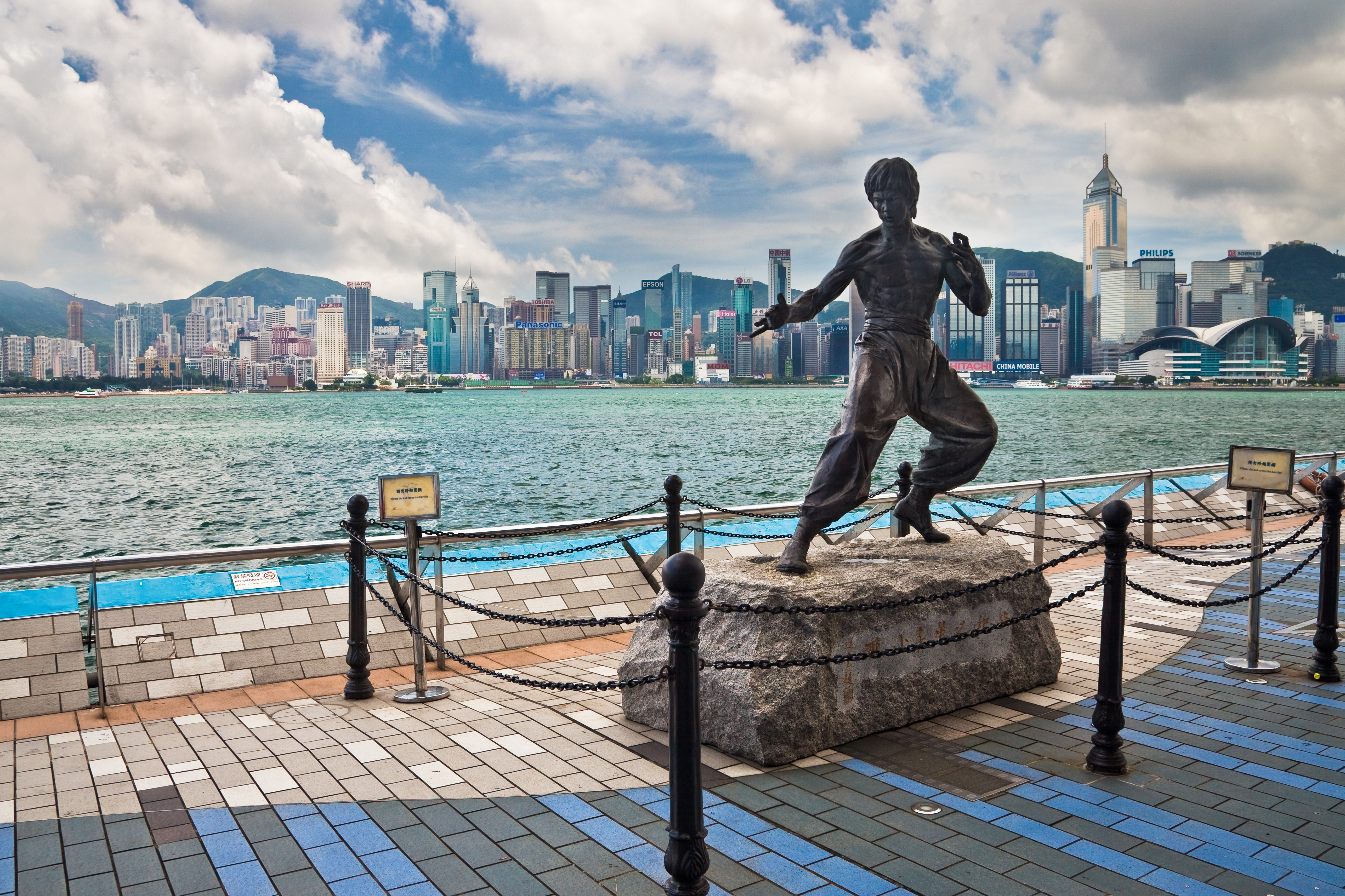 The Bruce Lee statue in Hong Kong is a memorial figure of deceased martial artist, Bruce Lee. The 2.5 metre bronze statue by artist Cao Chong-en was erected along the Avenue of Stars attraction near the waterfront at Tsim Sha Tsui.